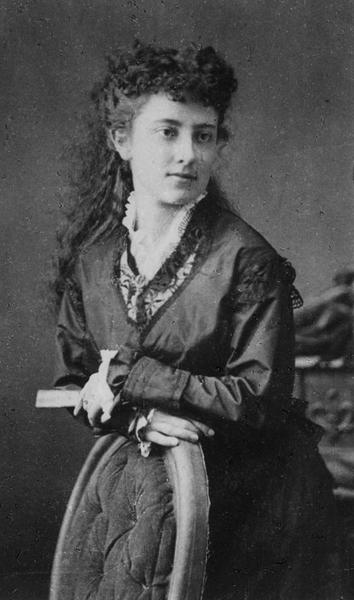 Portrait of Olive Schreiner (1855-1920)